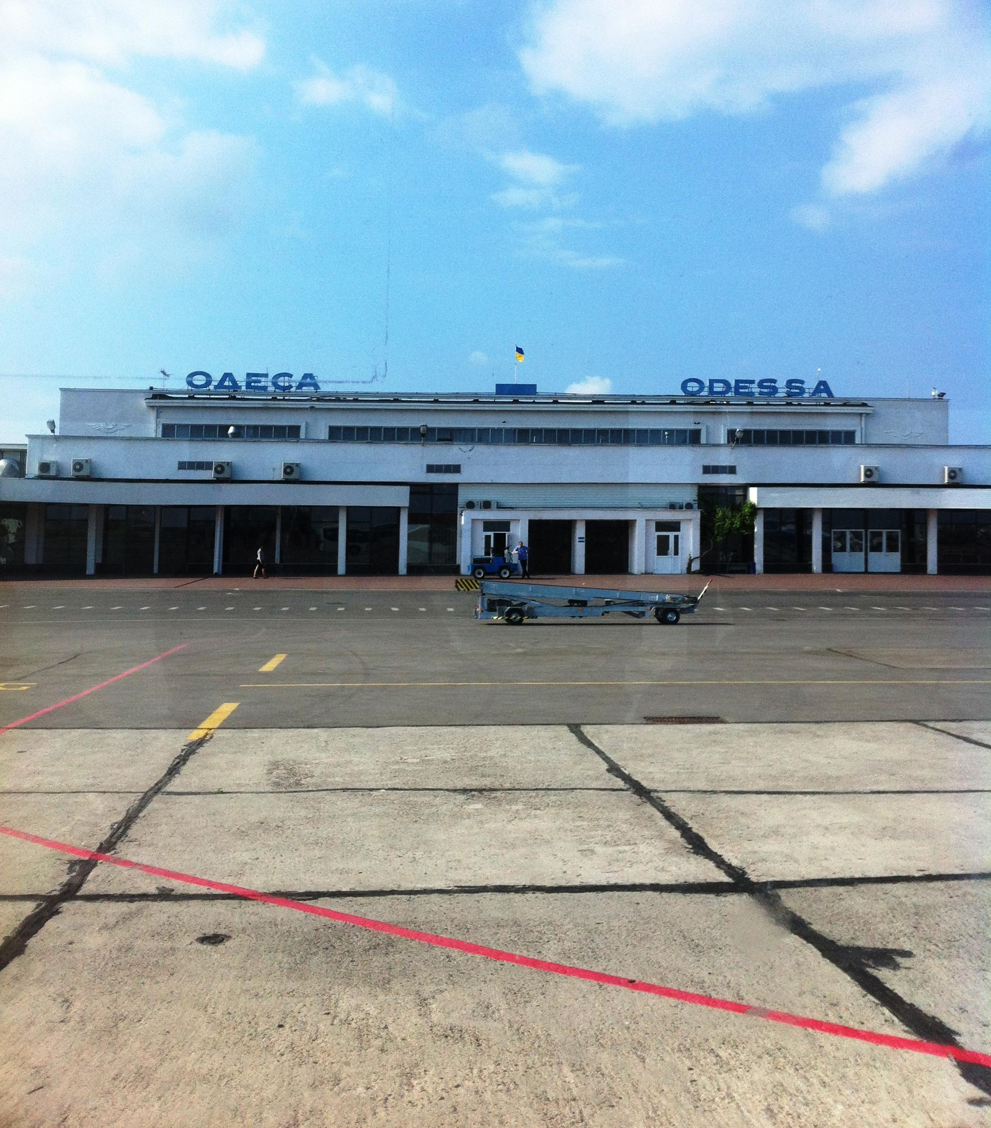 Odessa internatilnal airport ODS Central in Odessa Ukraine. Picture taken in May 2013